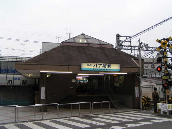 Keikyu Hatchō-nawate station central entrance